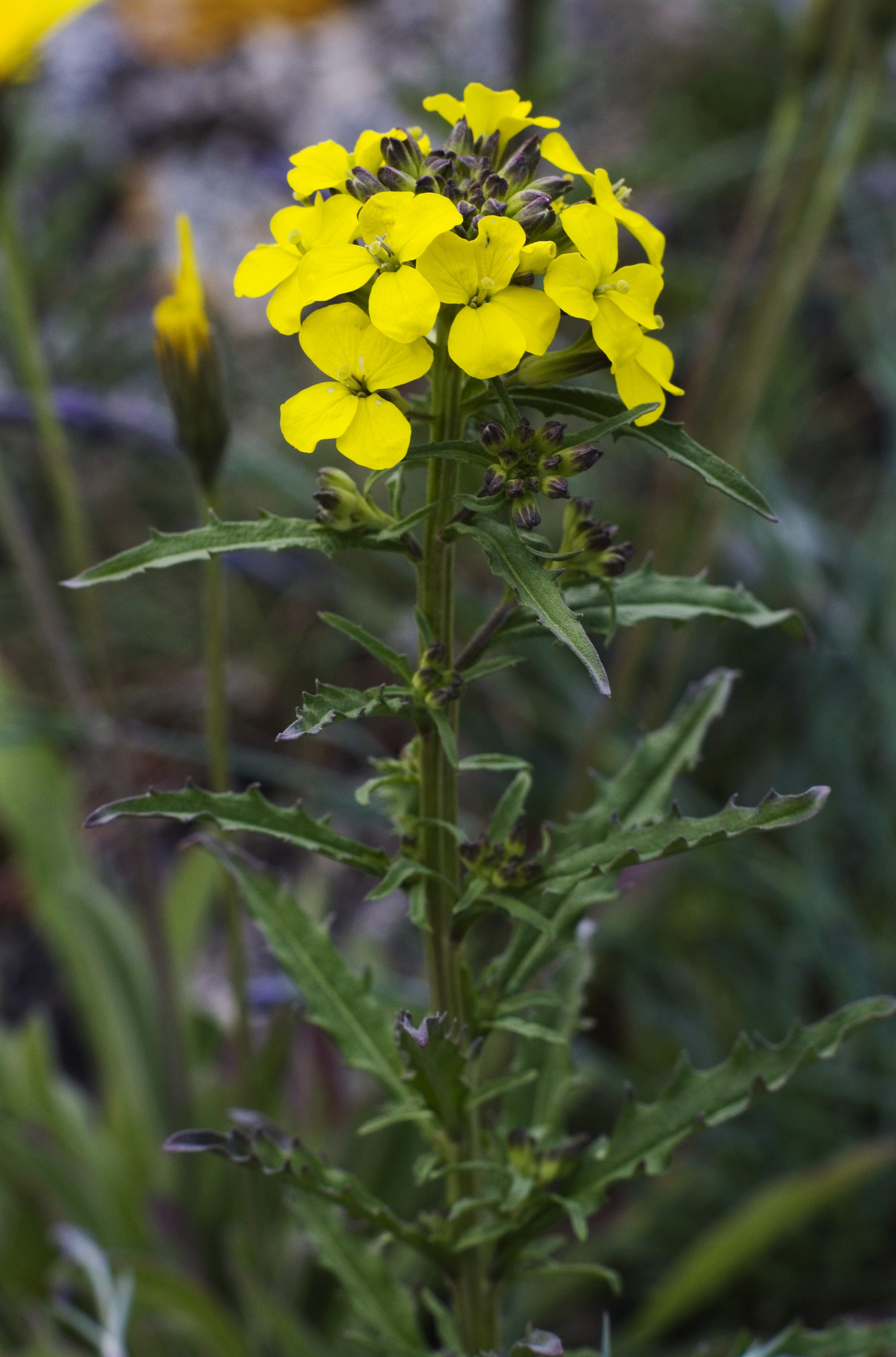 Taxon: Erysimum odoratum - smelly wallflower (syn. Erysimum pannonicum) Location: Súľov Rocks